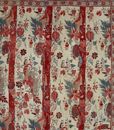 Textile design, detail. Indian chintz. Coromandel Coast, India, c.1710-25.